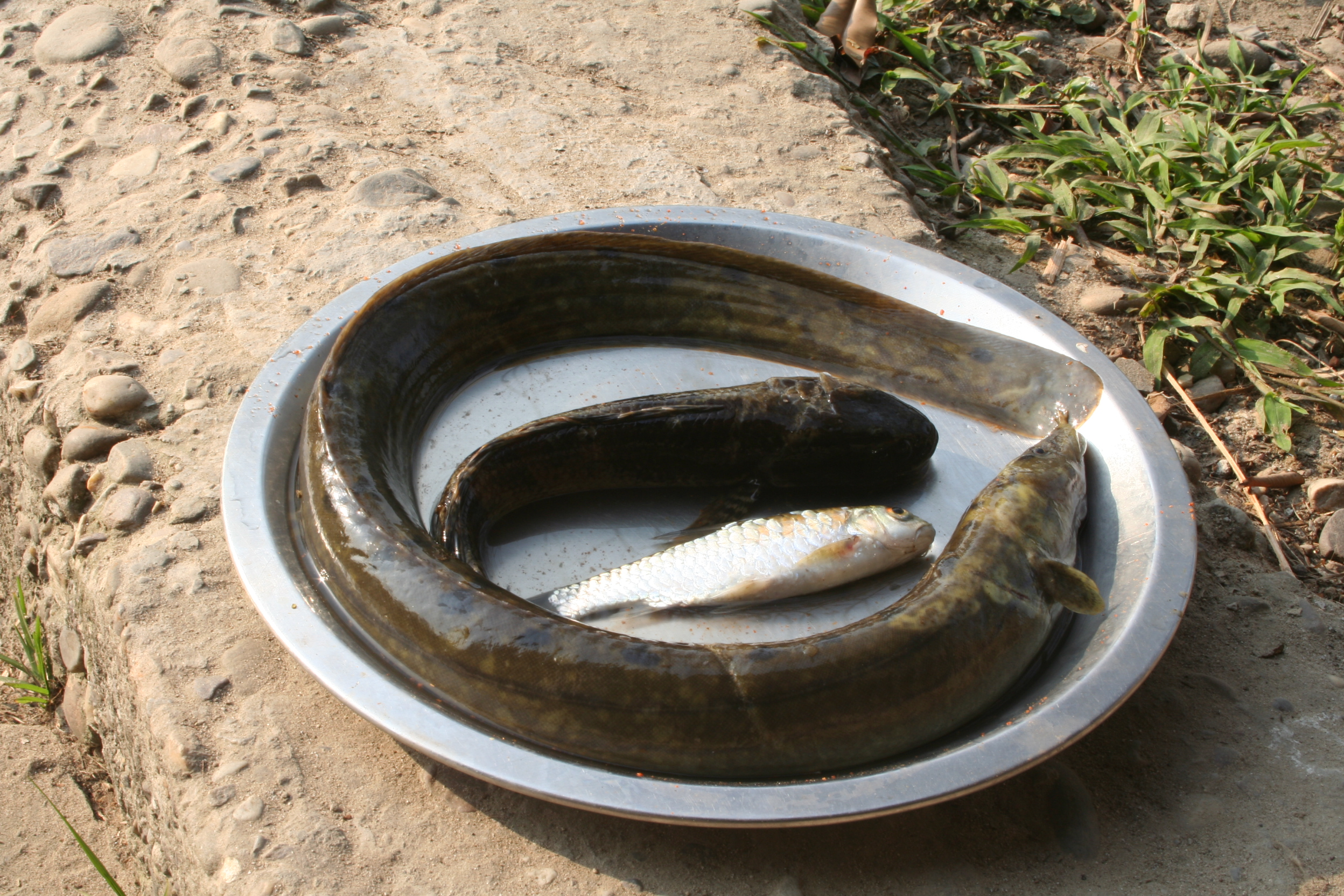 The Indian Mottled Eel (Anguilla bengalensis), a freshwater Eel. This photograph is from a water body in Pakke Tiger Reserve.